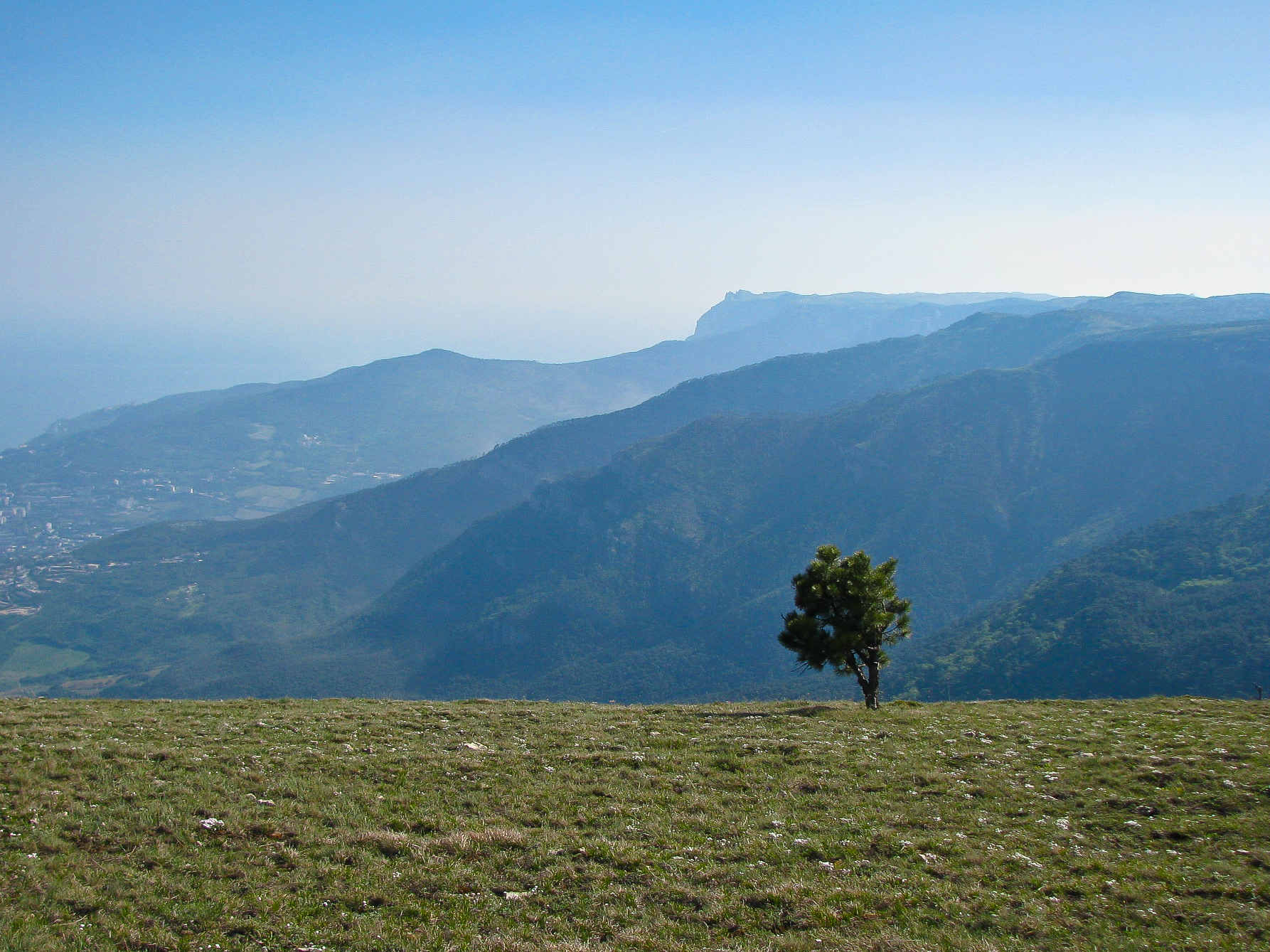 View on the south spurs of the Yalta Yayla from the south-west slopes of the top part of the Balanin-Kayasi spur. Most close on the right is the Lapata spur; behind it there is the Kizil-Kaya spur, then Iograf spur. Far on the left one can see the hill Mogabi. Far in the middle one can see the Ai-Petri mount.